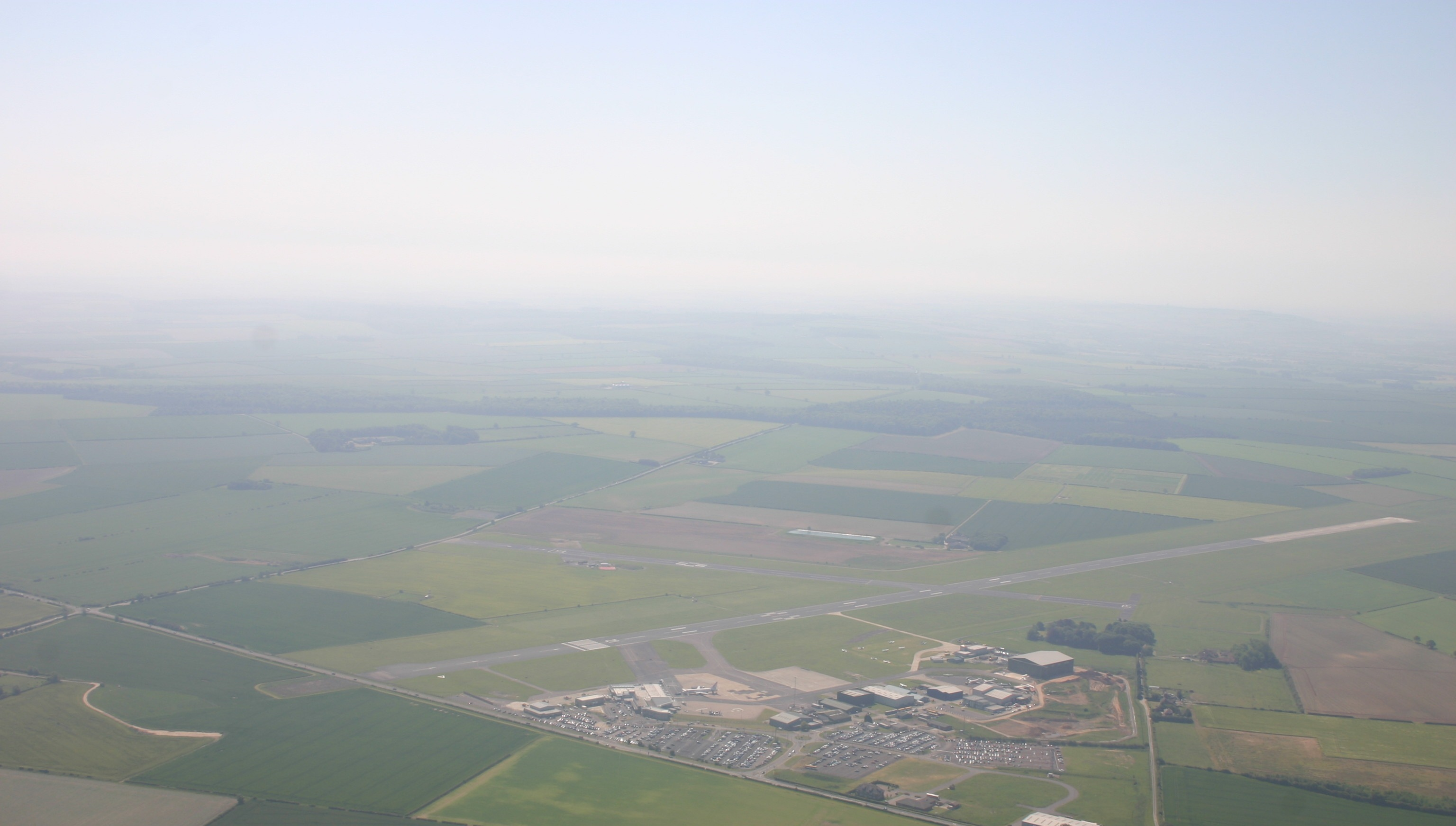 This photo was taken by my 10 year old daughter, Laura, from about 1200 feet altitude from the north of runway 21 after taking off from runway 09 Saturday 10 Jun 06 in Cessna 172 G-BAIW. Using a Canon EOS300D digital SLR camera.